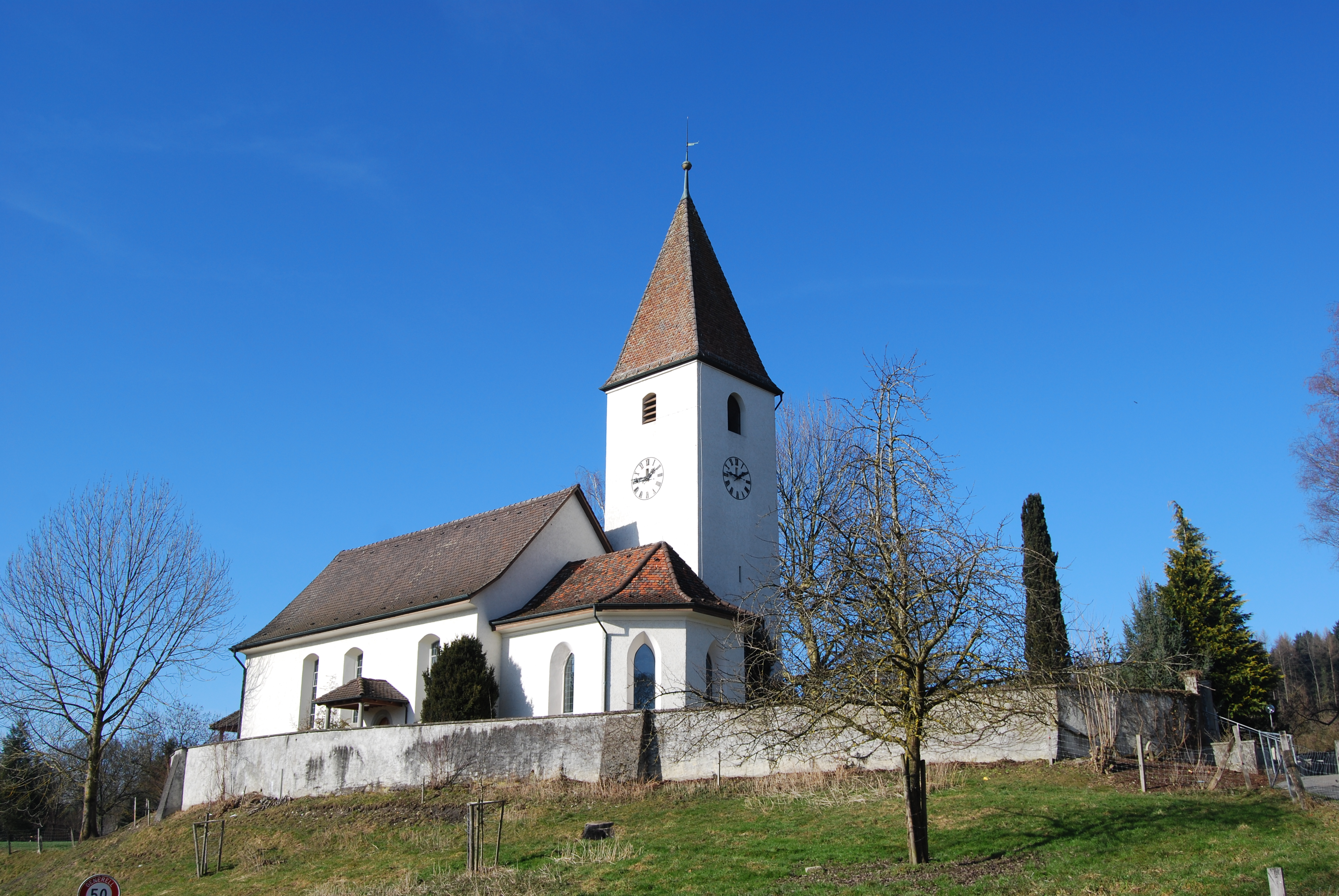 Church of Lipperswil, municipality of Wäldi, canton of Thurgovia, Switzerland